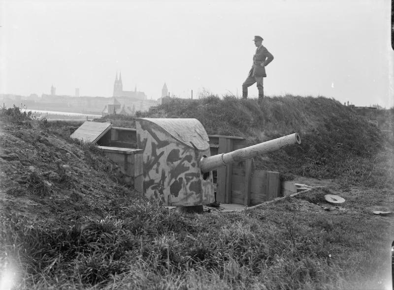 Photograph of German 8cm gun of Eylau Battery, Ostend, Belgium.